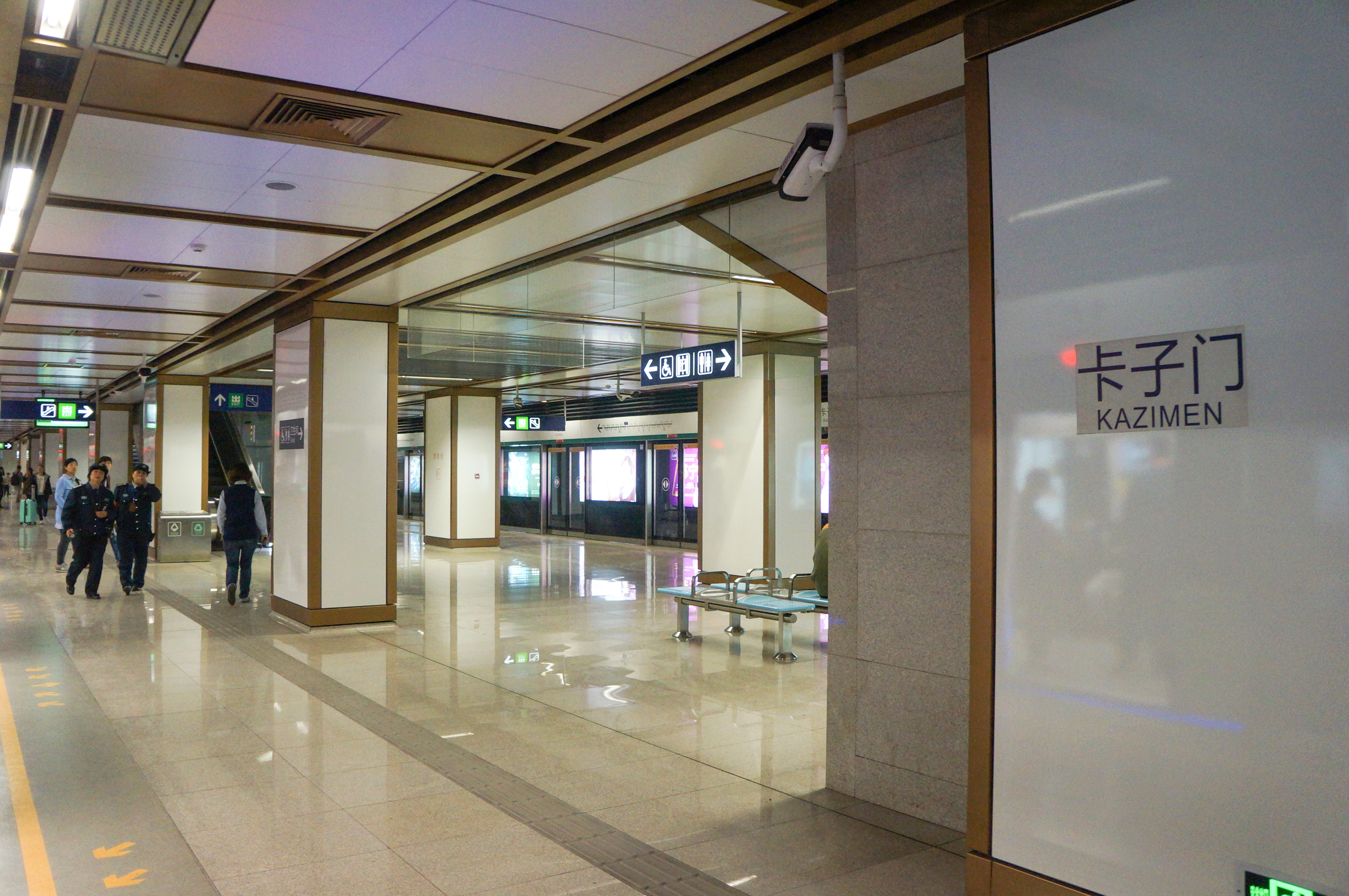 201704 Kazimen Station